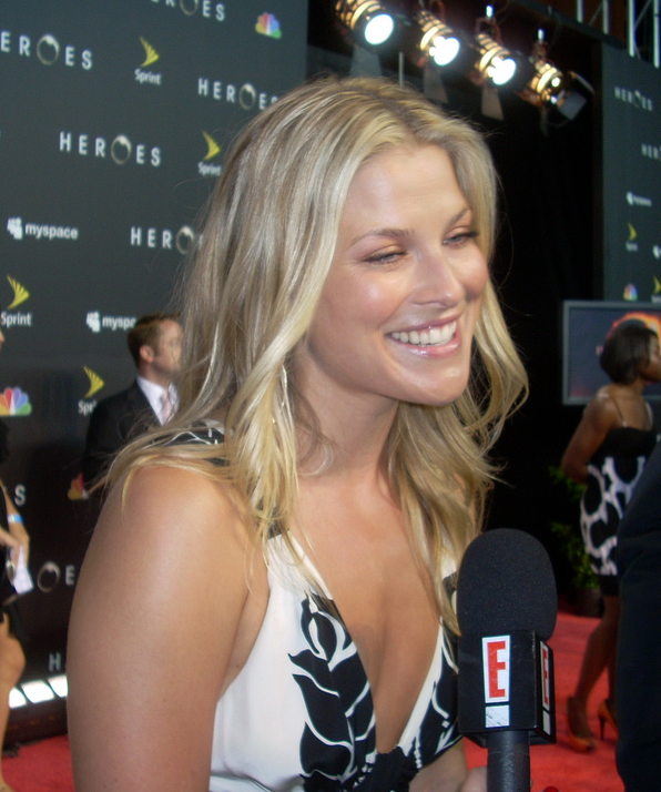 Ali Larter in 2008